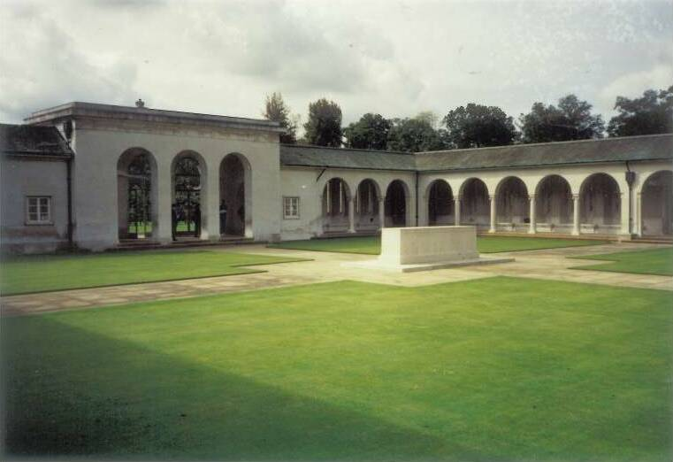 Air Forces Memorial, Runnymede, UK